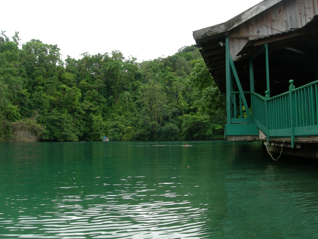 Blue lagoon beach, Port Antonio, Portland, Jamaica.